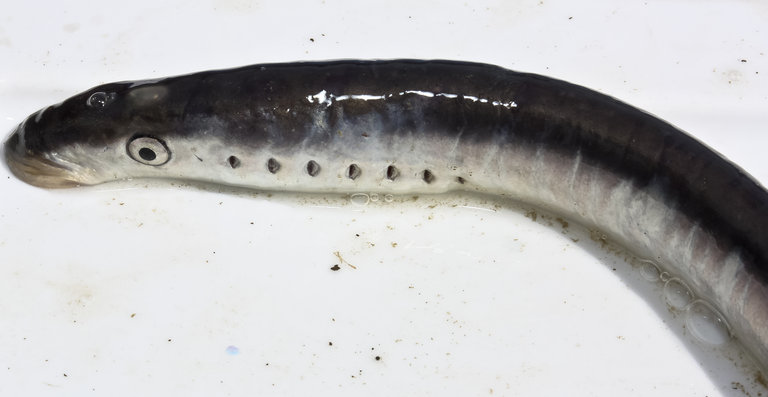 Lampetra tridentata from Mare Island, Solano Co., CA, USA